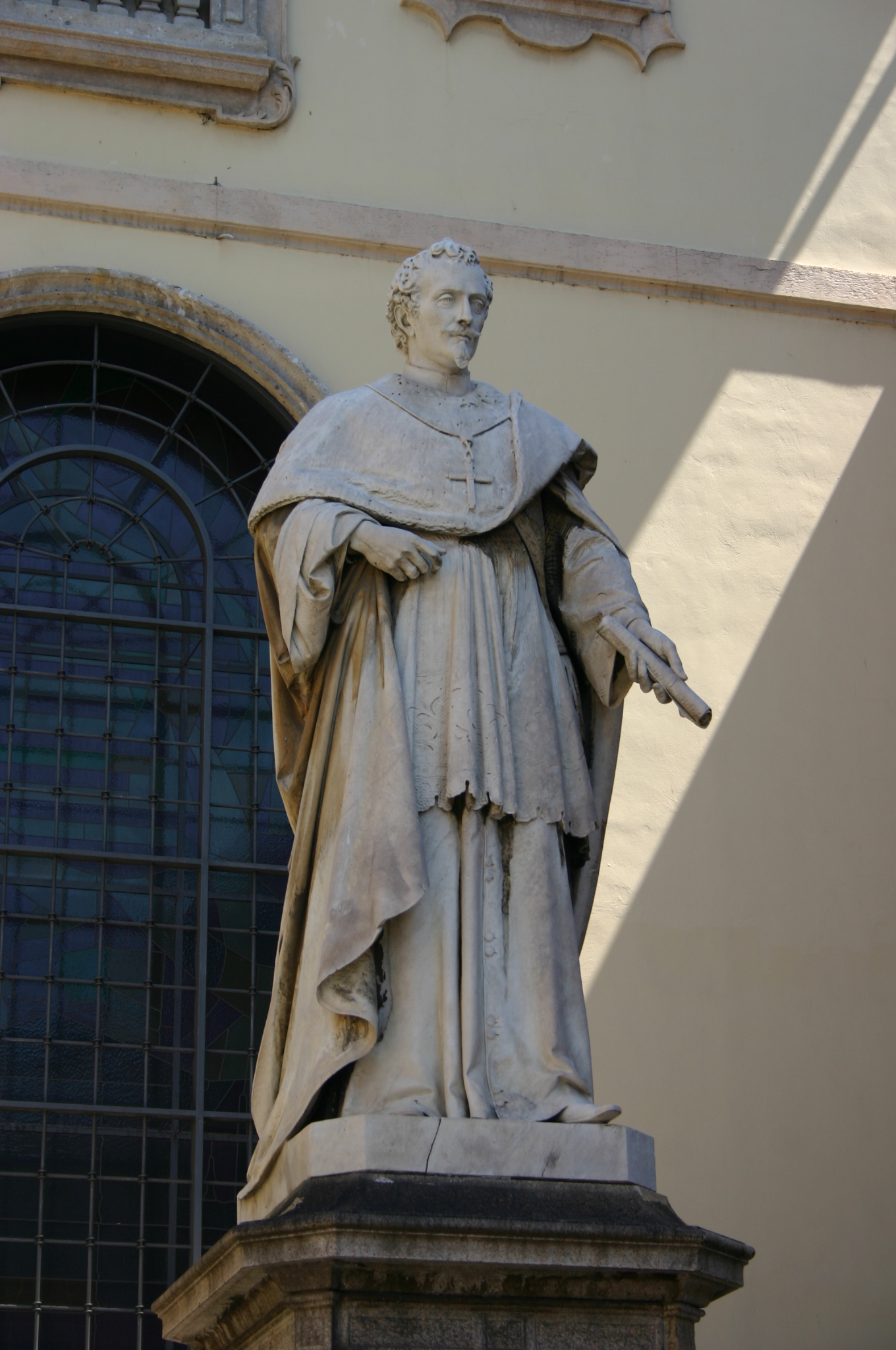 Costanzo Corti (1824-1873), Monument (1865) to Federico, Cardinal Borromeo, in Piazza Santo Sepolcro in Milan, Italy. It stands in front of the former main facade of Ambrosiana, currently being its back facade. Picture by Giovanni Dall'Orto, July 14 2007.